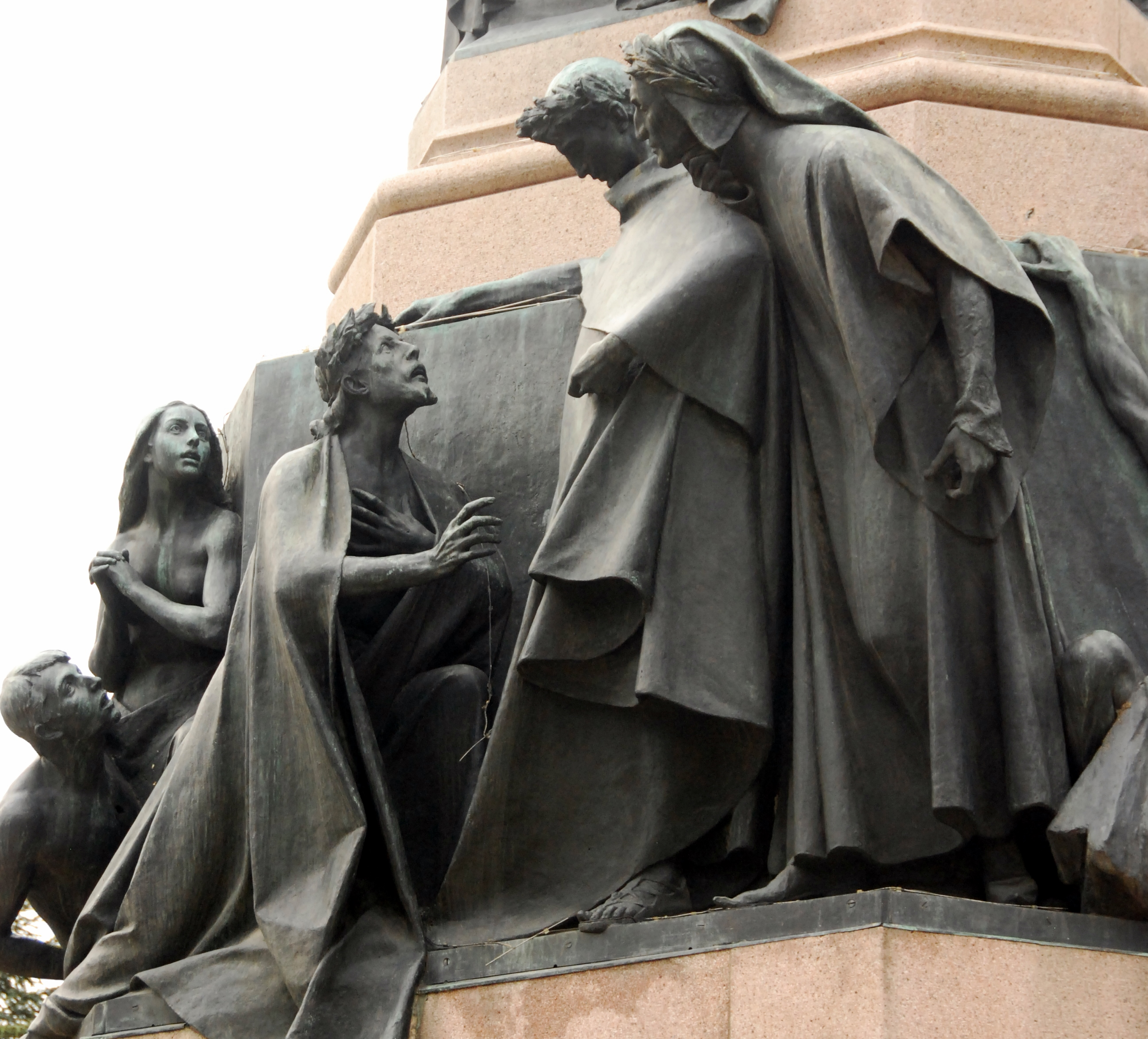 Dante and Virgil meet Sordello. Detail of the Monument to Dante in Trento by Cesare Zocchi.